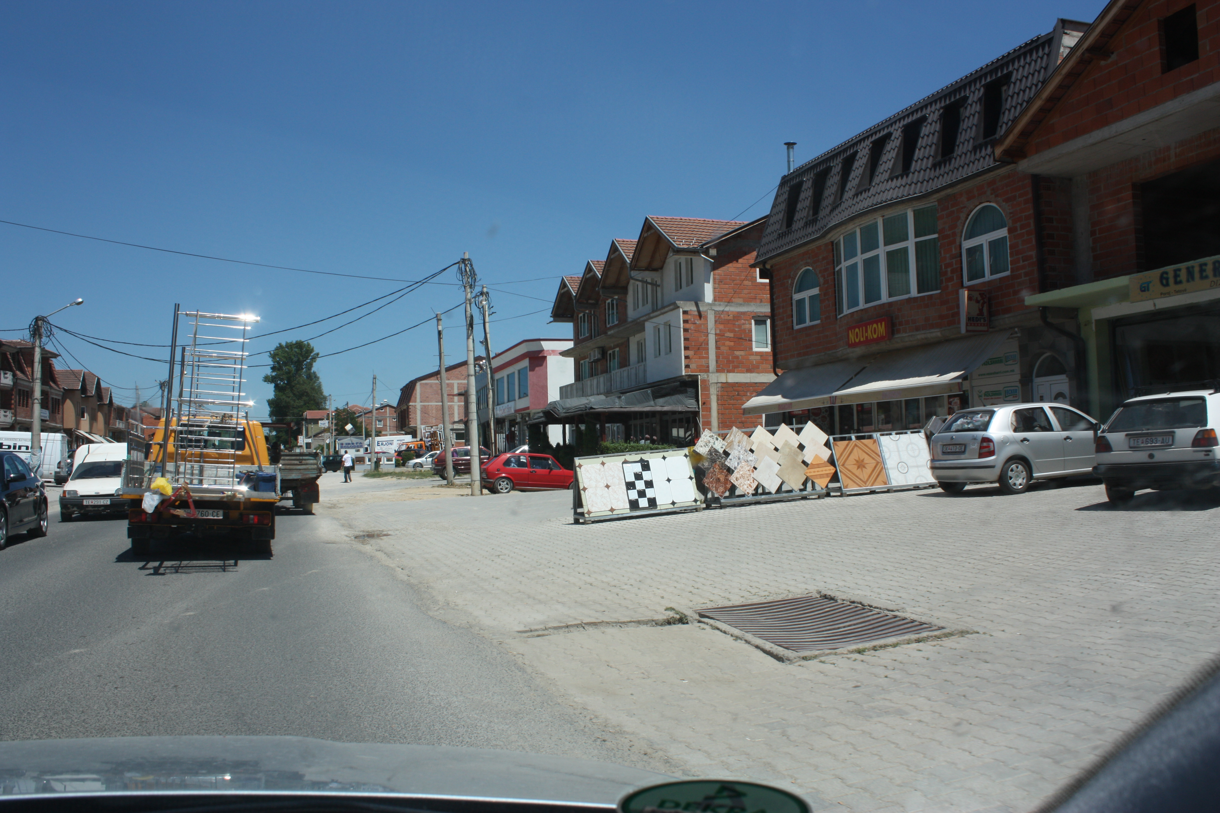 Džepčište near Tetovo in Macedonia